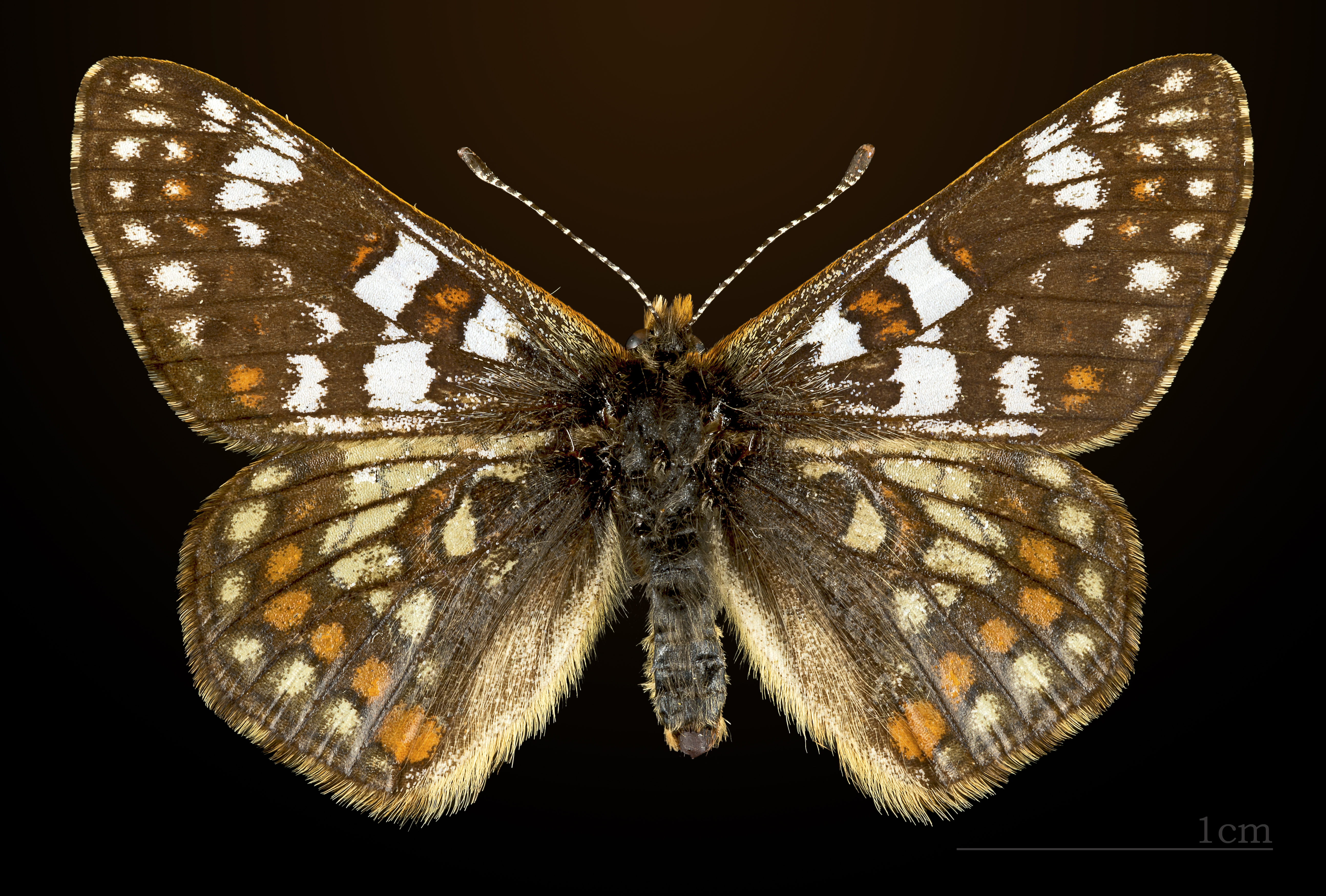 Cynthia's Fritillary ♂ - Dorsal side Locality: Col de Granon , Hautes-Alpes, France